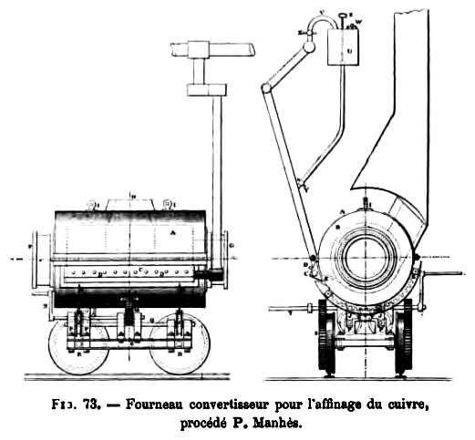 Greneral drawing of the Manhès converter, invented in 1880, for refining copper mattes.